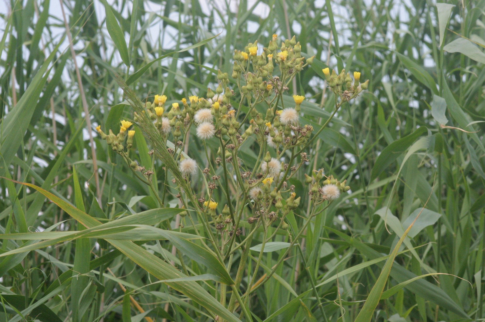 Sonchus palustris